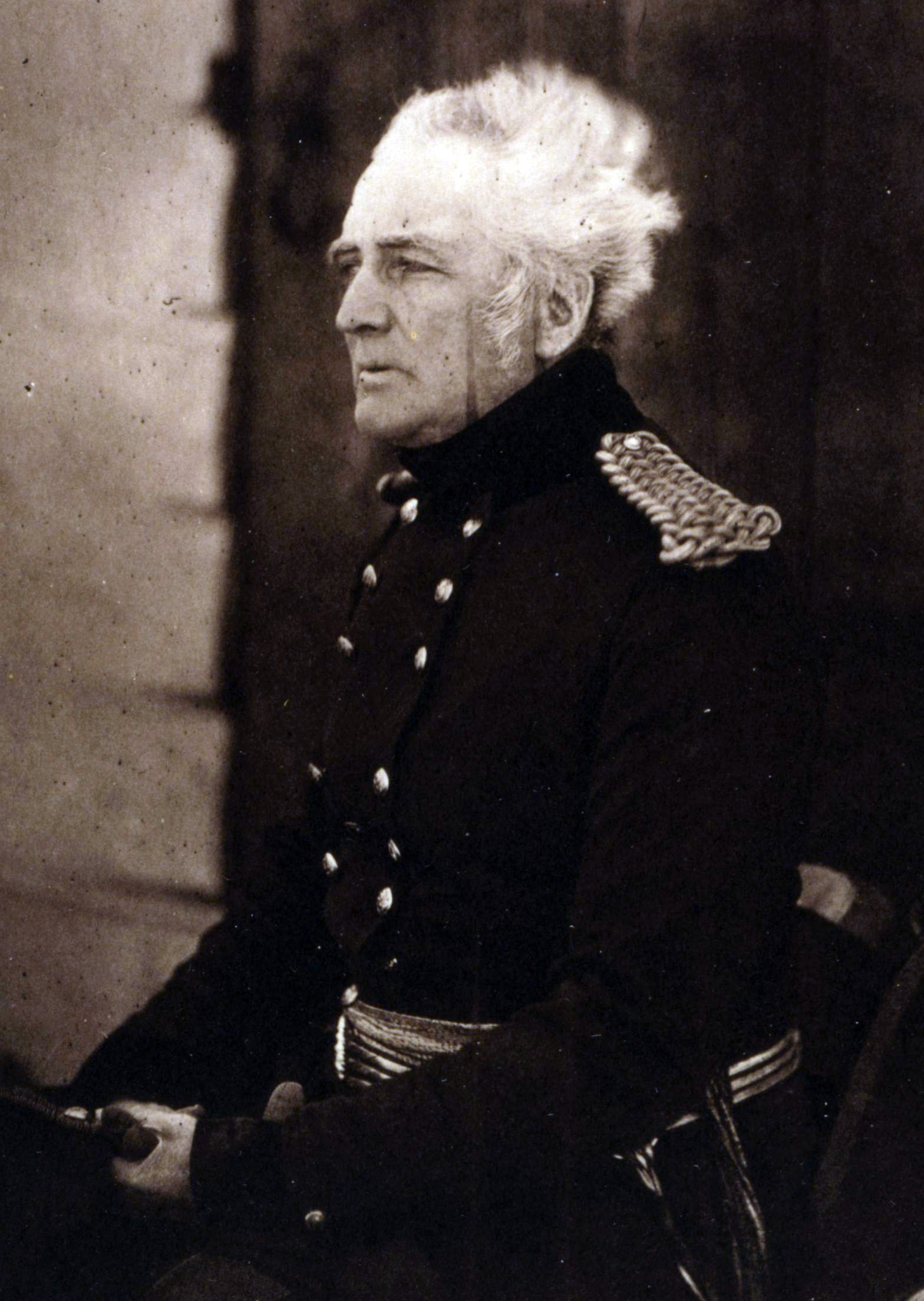 Sir George Brown, three-quarter portrait, seated facing left.